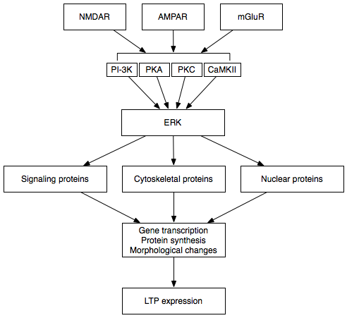 Proposed mechanism for the late phase of long-term potentiation, based on Lynch (PMID 14715912).